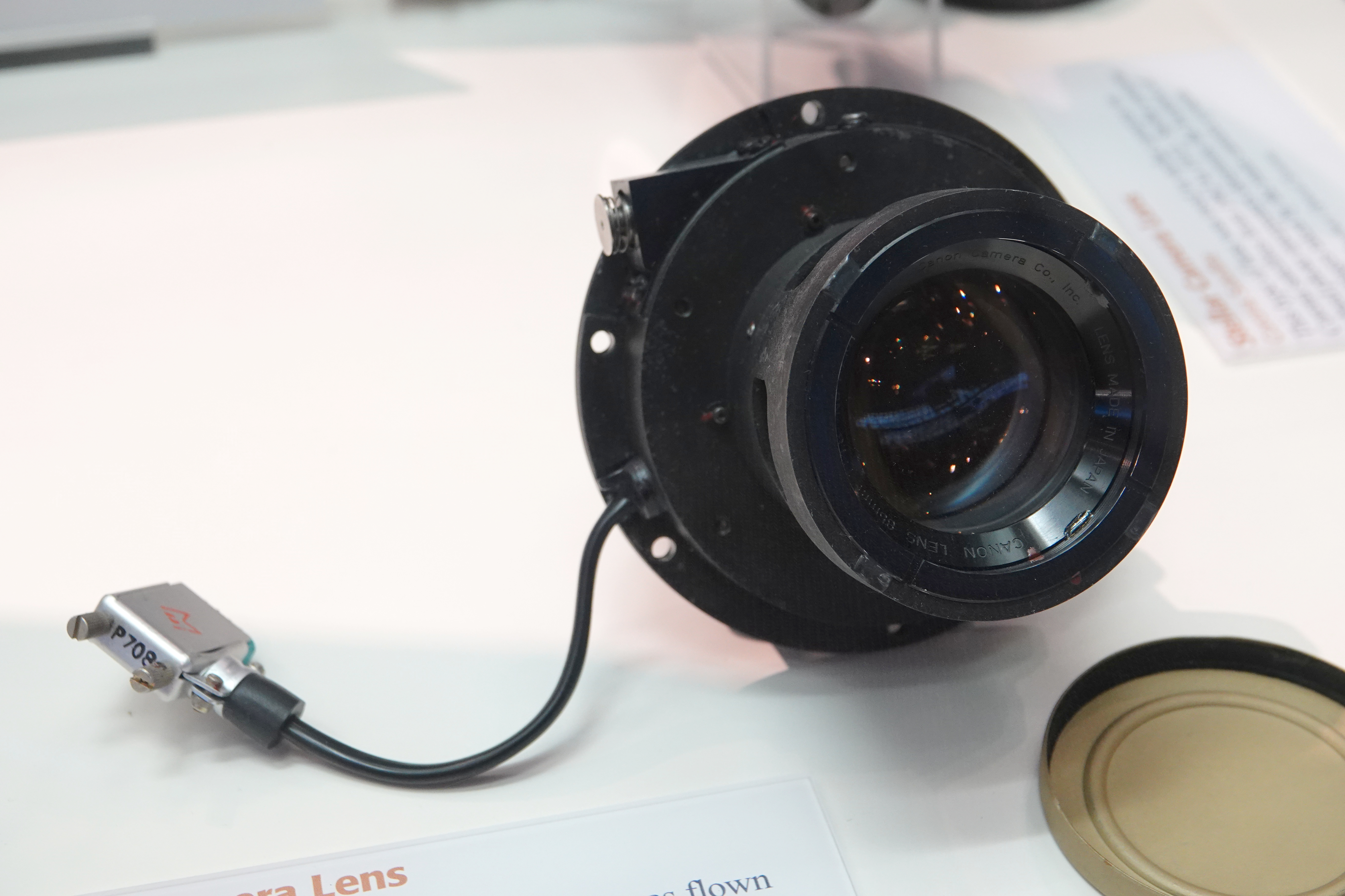 Picture of a Corona Satellite Index Camera Lens. This type of lens was used in index cameras flown on Corona satellites from 1962 to 1972. Index cameras helped photo interpreters determine the location of Earth images taken by the main camera system. Picture taken at the National Air and Space Museum's Steven F. Udvar-Hazy Center in Chantilly, Virginia, USA.